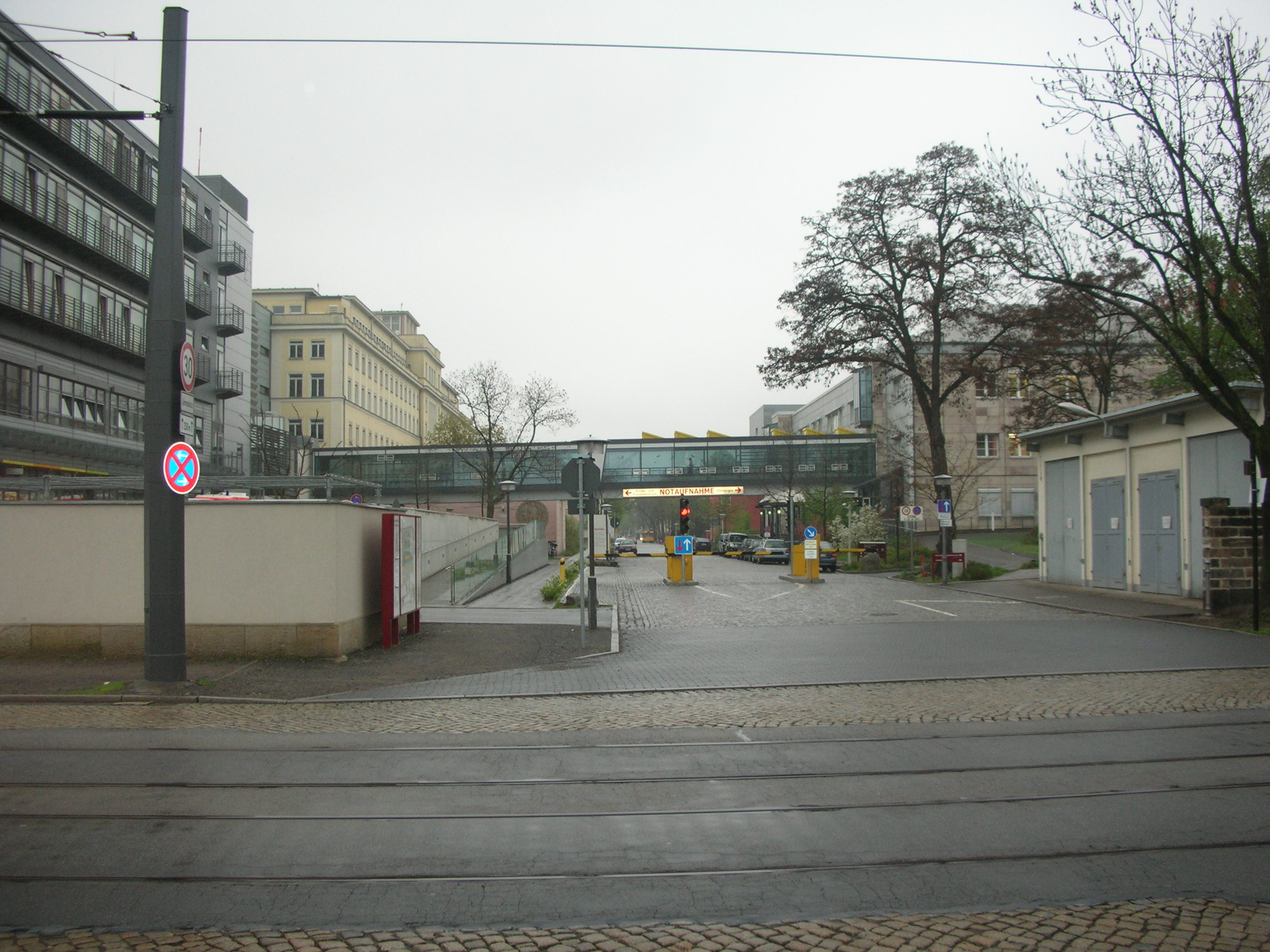 university hospital Dresden, Germany